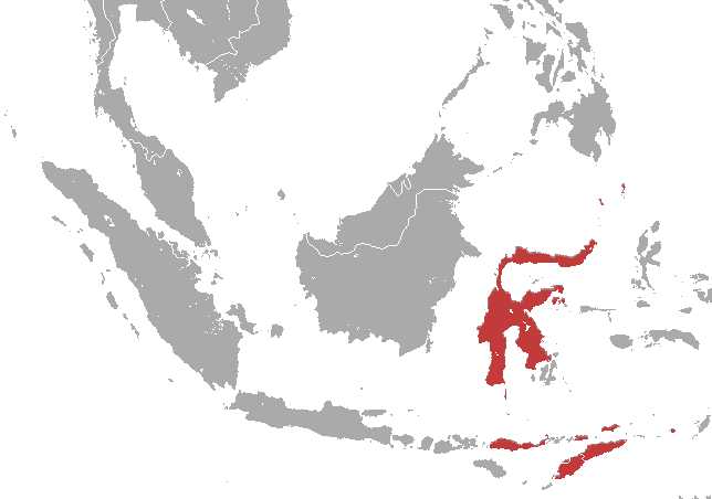 Gray Flying Fox (Pteropus griseus) range